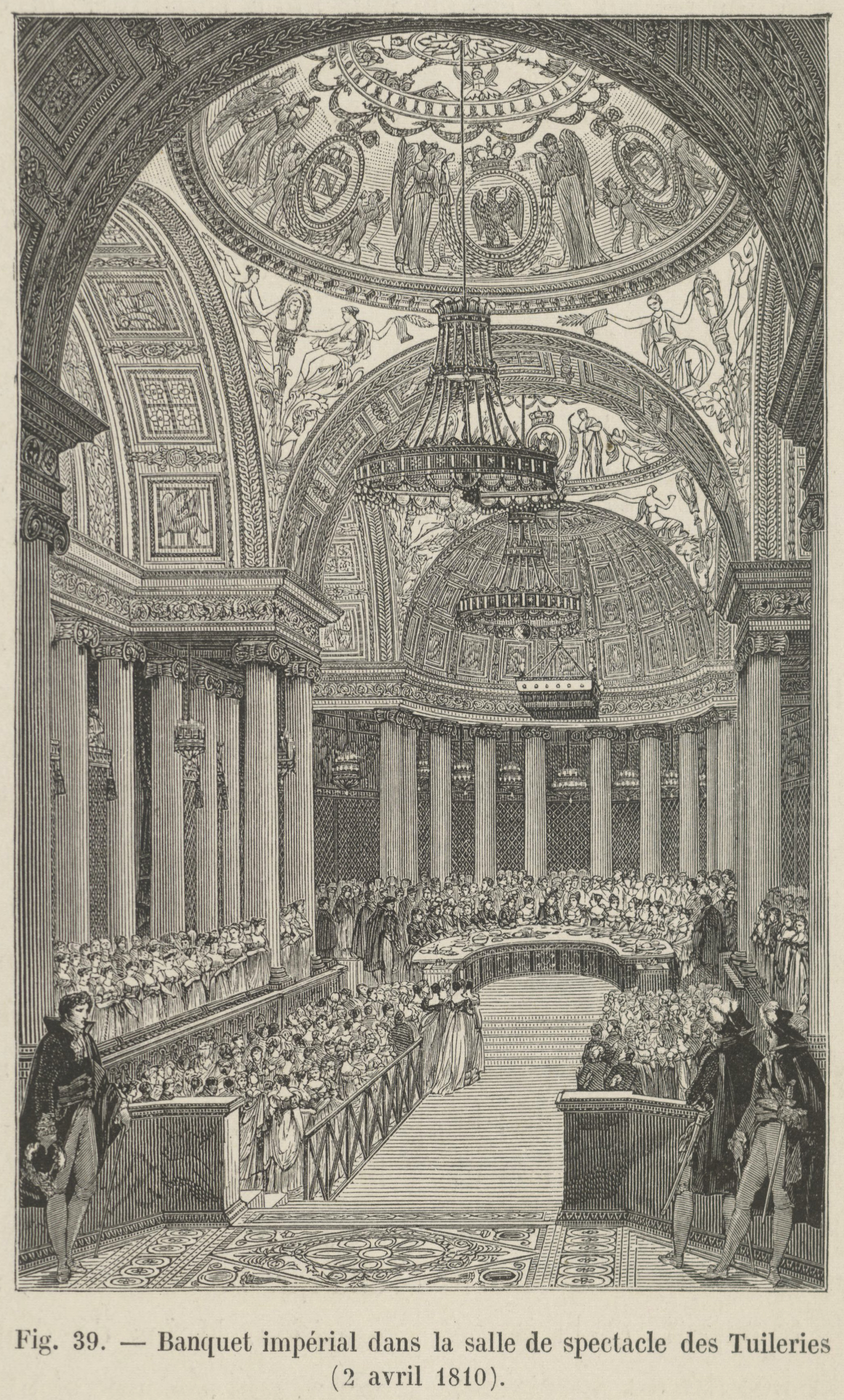 On April 2, 1810, the Tuileries Palace celebrated the arrival of Napoleon and his new bride (Marie-Louise of Austria). The festivals of the following days consisted of many banquets, concerts and spectacles to commemorate the new union.